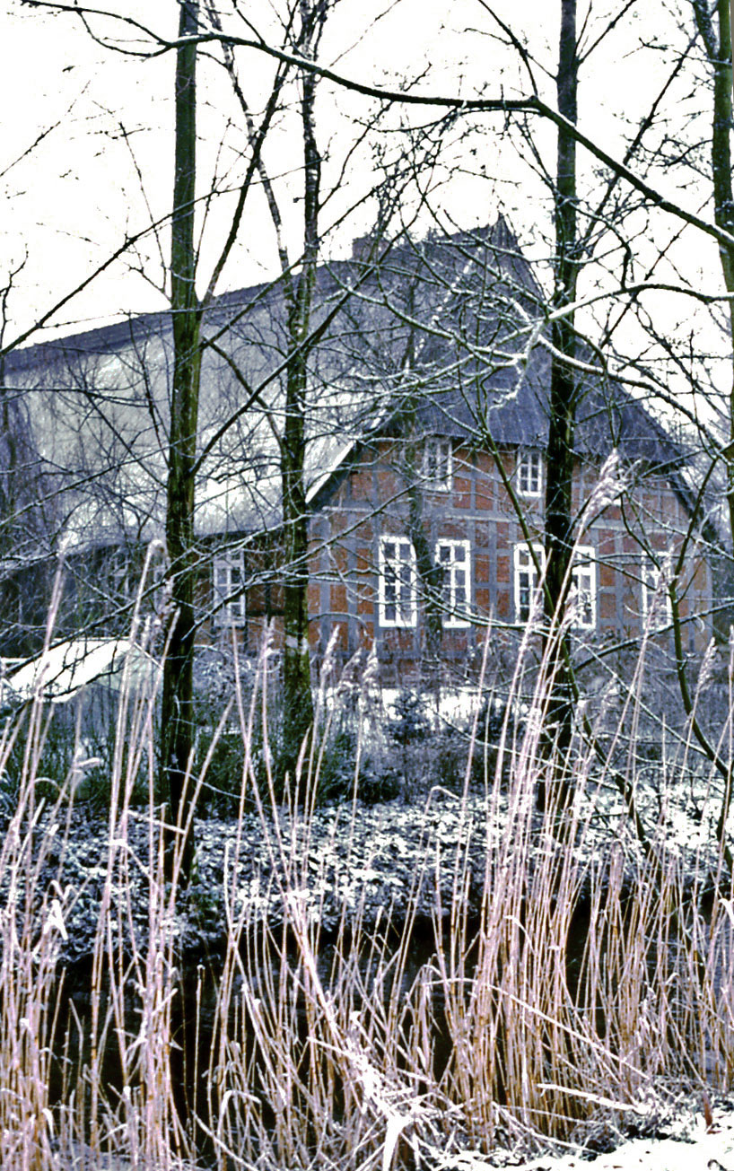 Stedingen in north Germany. Farm on the river Ollen in winter